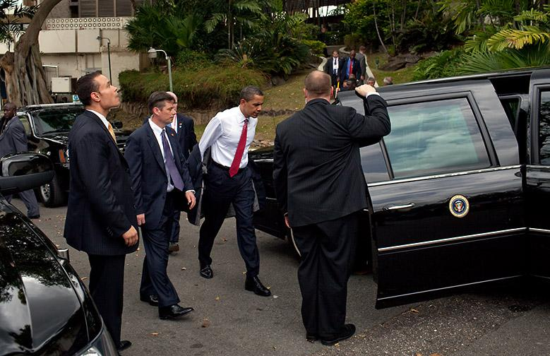 President Barack Obama removes his suit coat as he enters the presidential limousine en route to the airport on April 19, 2009.